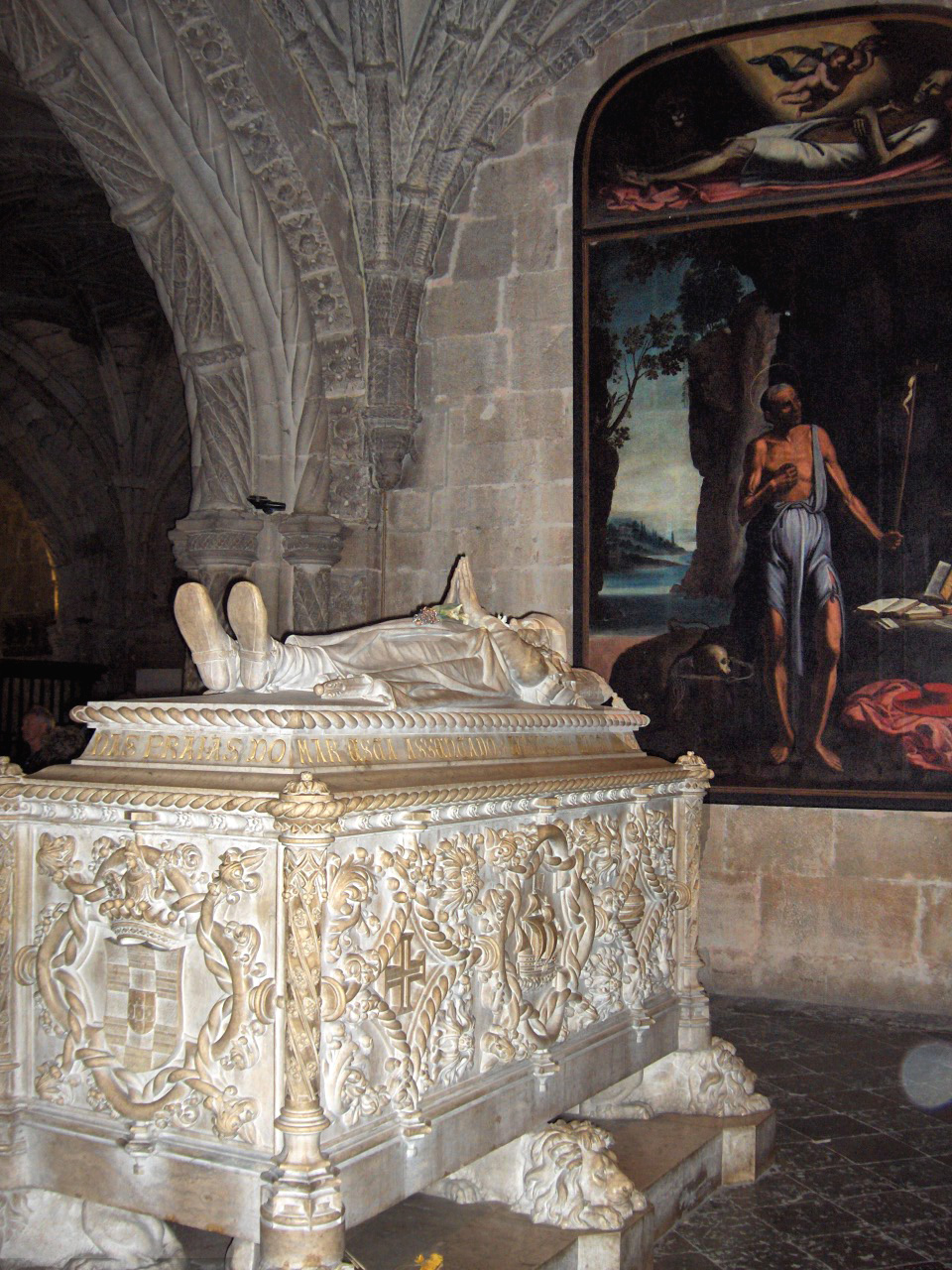 Sarcophagus of Vasco da Gama in the church of the Jerónimos Monastery, Belém, Portugal